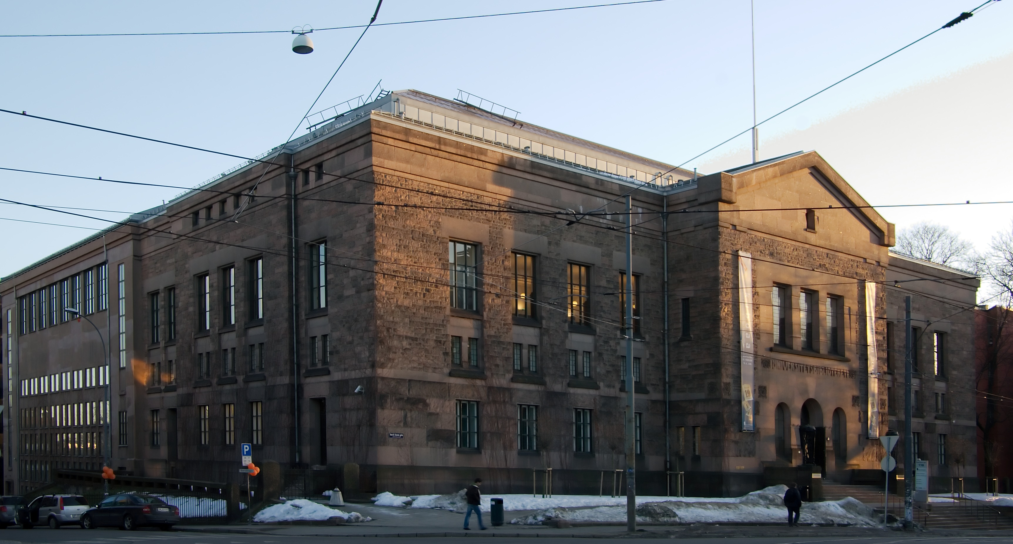 Nasjonalbiblioteket (National Library of Norway), Henrik Ibsens gate 110, Oslo. Built 1914-22 as the Oslo University Library. Architect: Holger Sinding-Larsen.